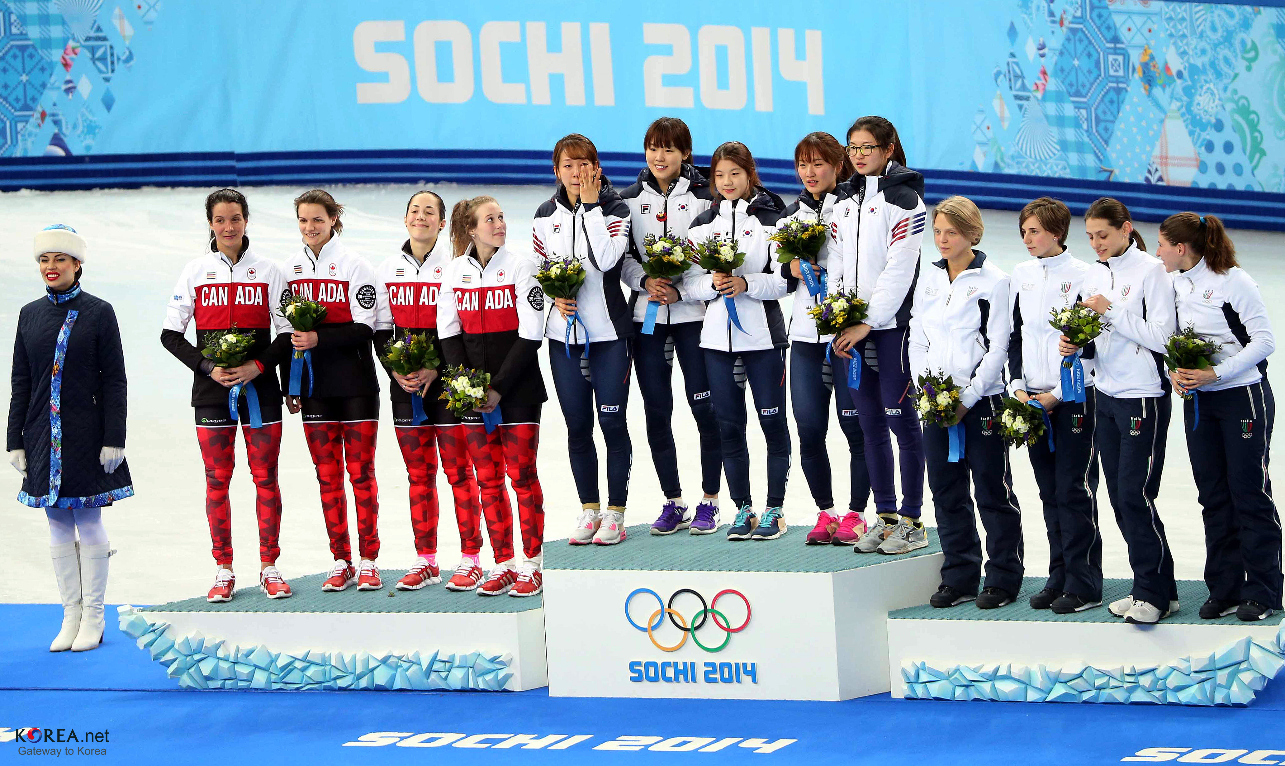 Team Korea won the gold medal in the ladies' 3,000-meter short track relay at the Sochi 2014 Olympic Games in Sochi, Russia. February 18, 2014 Iceberg Skating Palace, Sochi, Russia Photo: The Korean Olympic Committee Related Articles -English- 'Olympic Silver Medal is Invaluable': Shim Suk-hee -Russian- «Серебряная олимпийская медаль бесценна», - Шим Сук Хи -Deutsch- ,Olympische Silbermedaille ist von unschätzbarem Wert‘: Shim Suk-hee -日本語- シム・ソッキ、「五輪銀メダルに満足」 한국 쇼트트랙 여자 대표팀 ‘2014 소치 동계올림픽’ 쇼트트랙 여자 3000m 계주 금메달 획득 2014-02-18 러시아, 소치. 아이스버그 스케이팅 팰리스 사진: 대한체육회